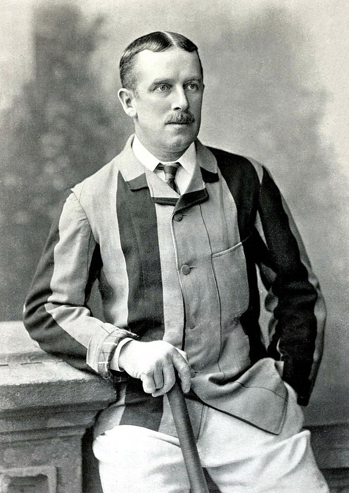 Sport, Cricket, circa 1895, Albert Nielson Hornby, Lancashire (1867-1899) and England